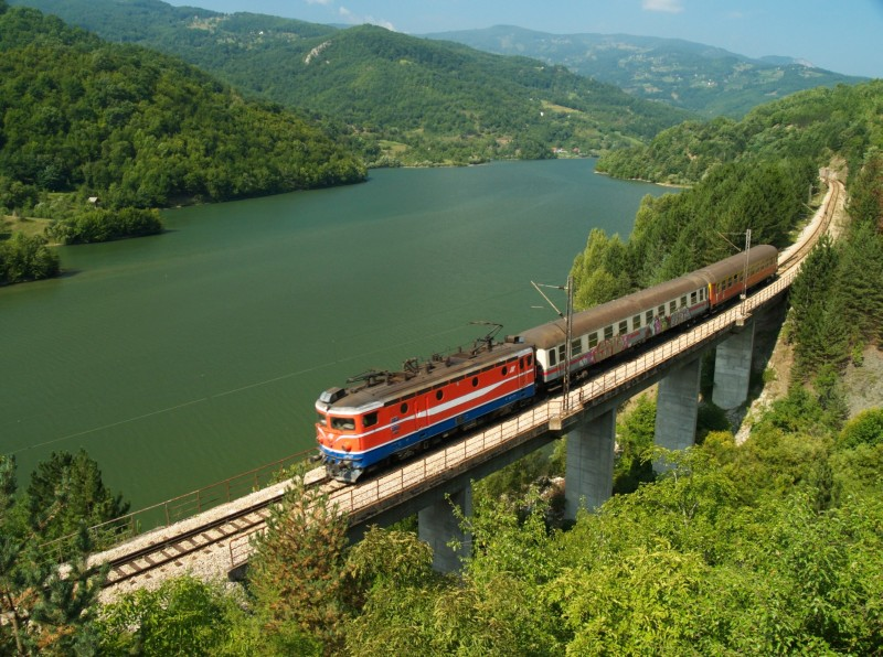 A ZS (Železnice Srbije, Serbian Railways) class 441 locomotive with the morning stopping train from Belgrade to Prijepolje Teretna near Priboj, over a reservoir.